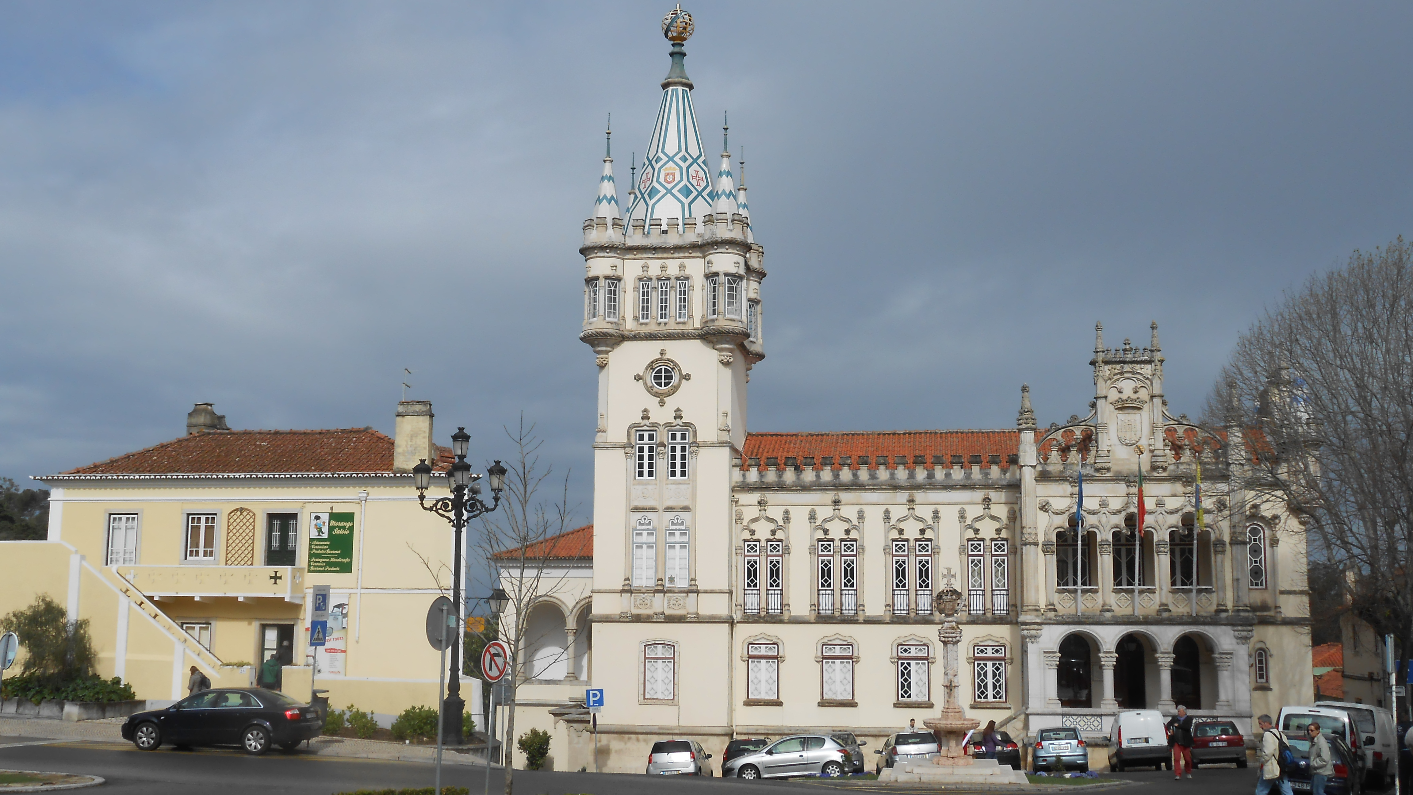 The Sintra town hall.